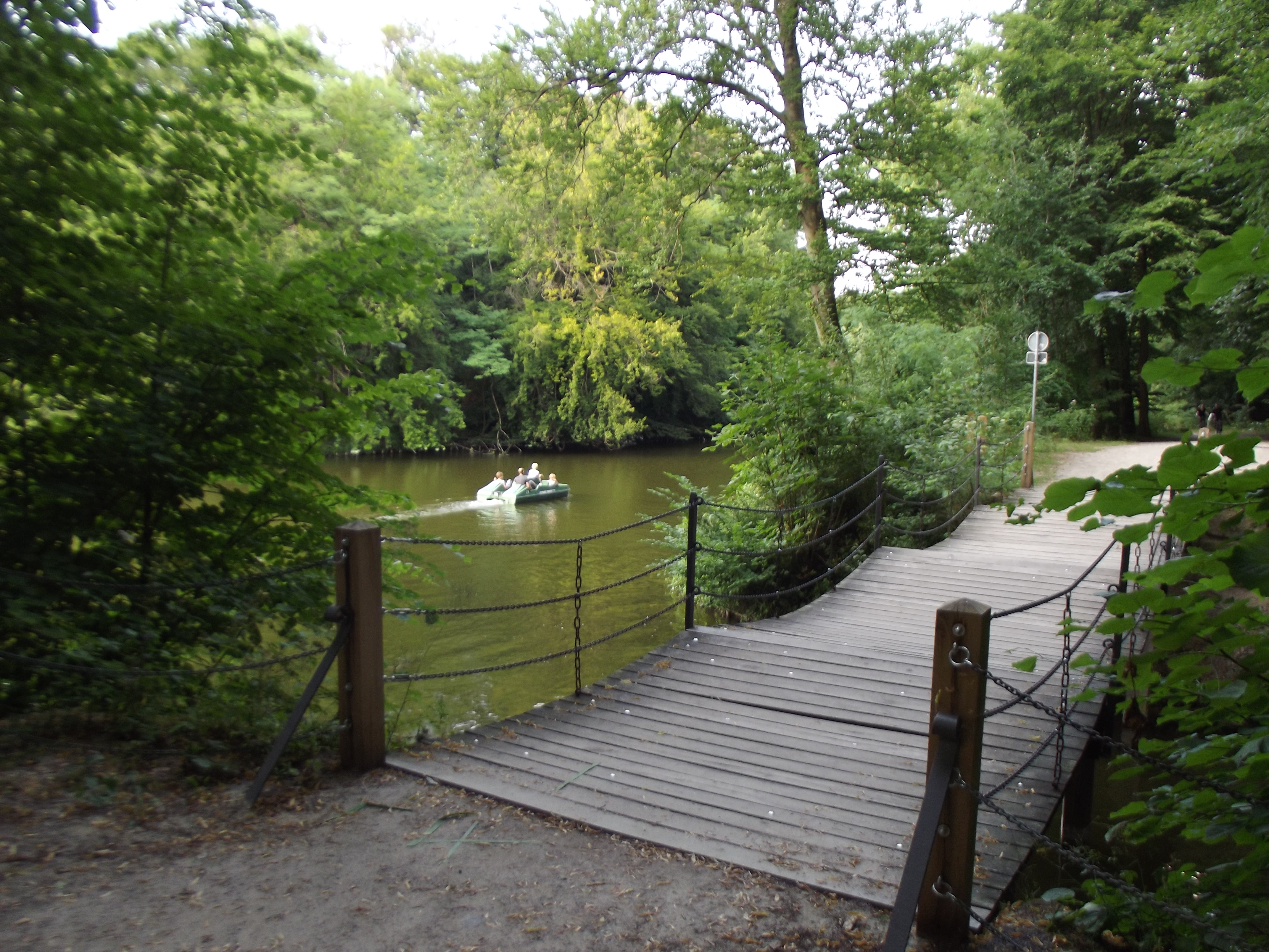 Characteristical part of Burgsteinfurt